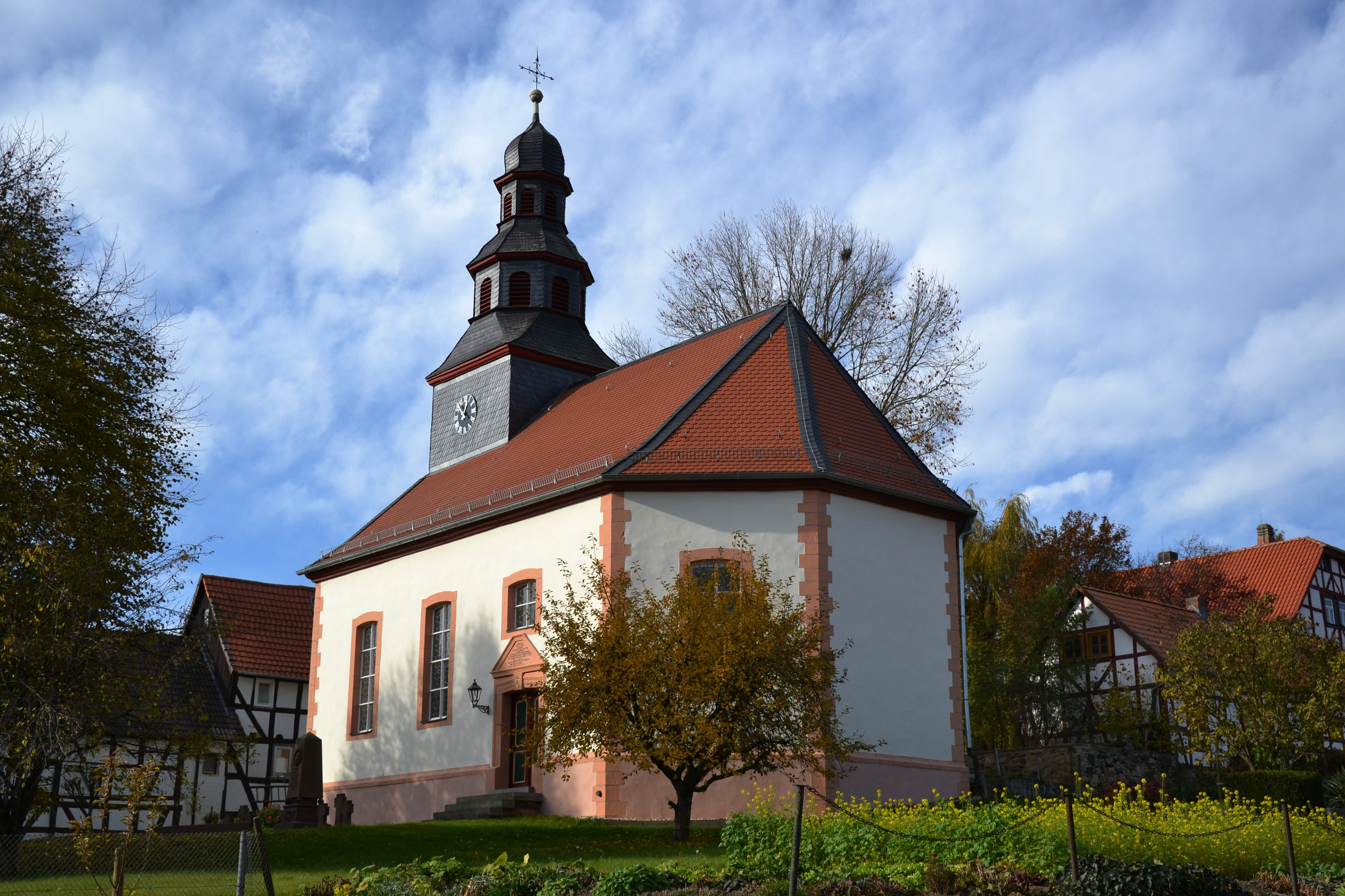 Church in Heidelbach (Alsfeld)